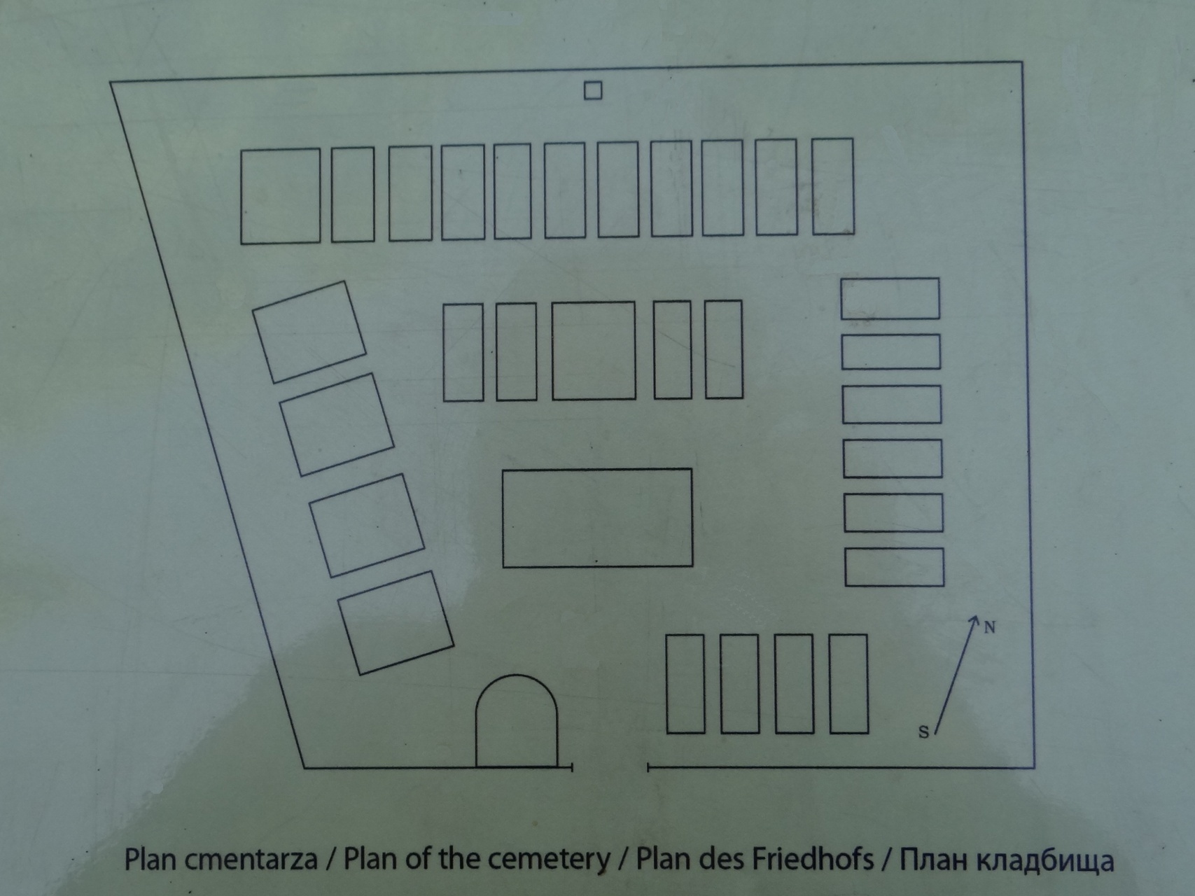 World War I Cemetery nr 184 in Brzozowa